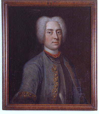 Portrait of Christian Wilhelm von Eyben